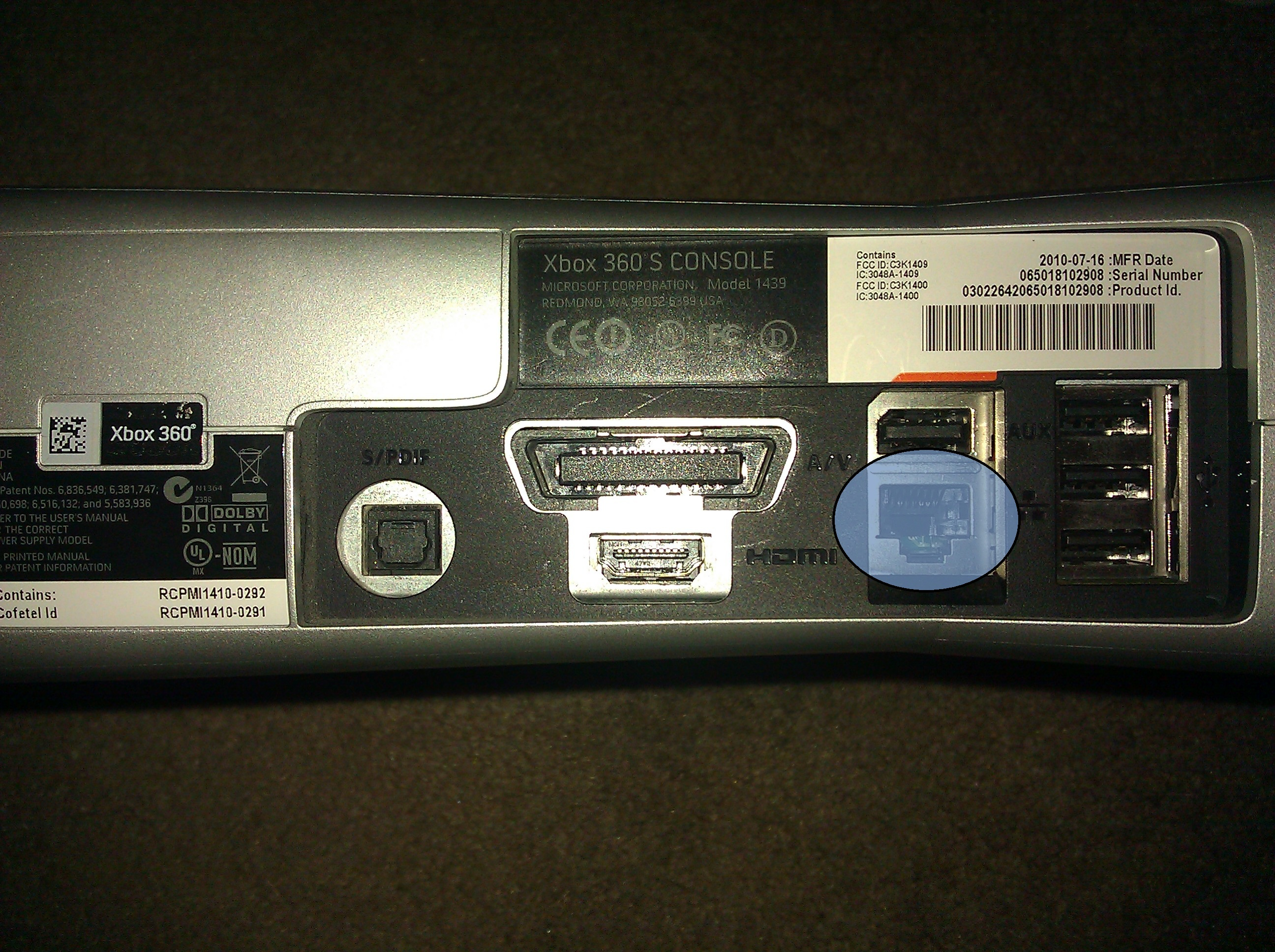 The back of the xbox360 slim with the Ethernet port highlighted in blue